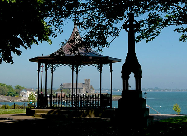 Dungarvan Ireland